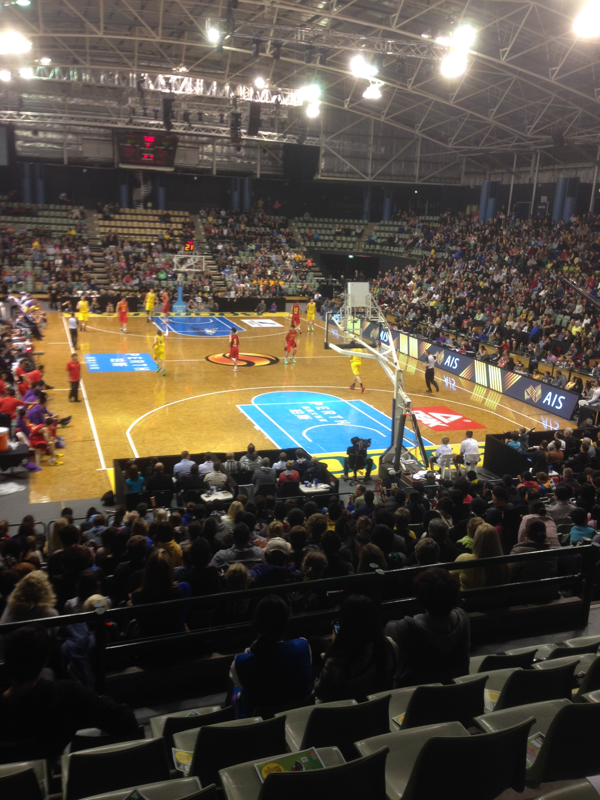 Challenge Stadium’s indoor arena, Australia vs China, Game Two of the 2014 Sino-Australia Challenge